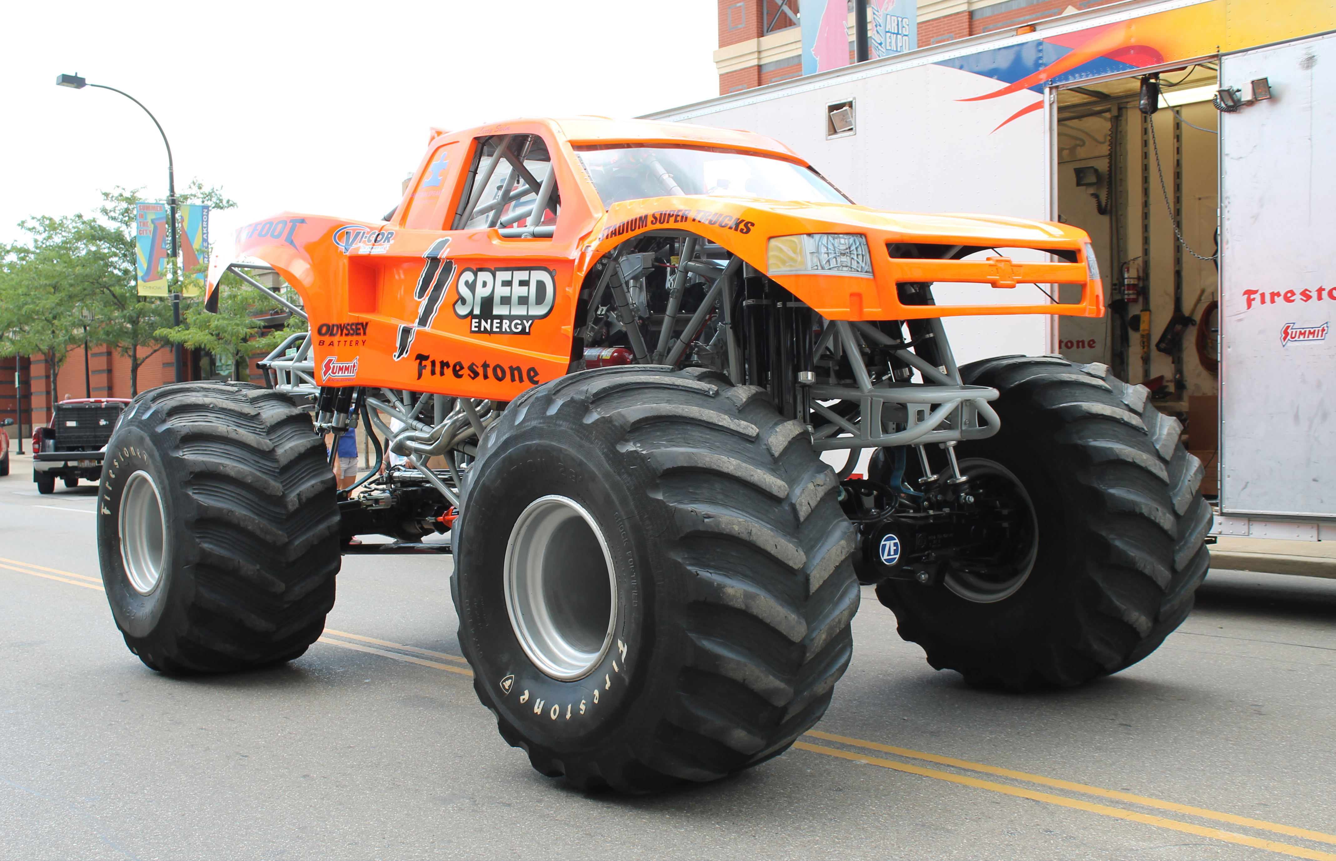 Bigfoot